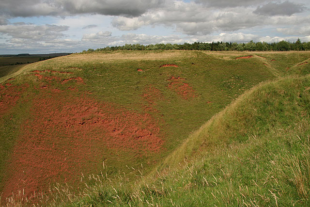 Blackcastle Rings Earthwork A view over Deil's Neuk to the ancient earthworks on the east side of the Blackadder Water.